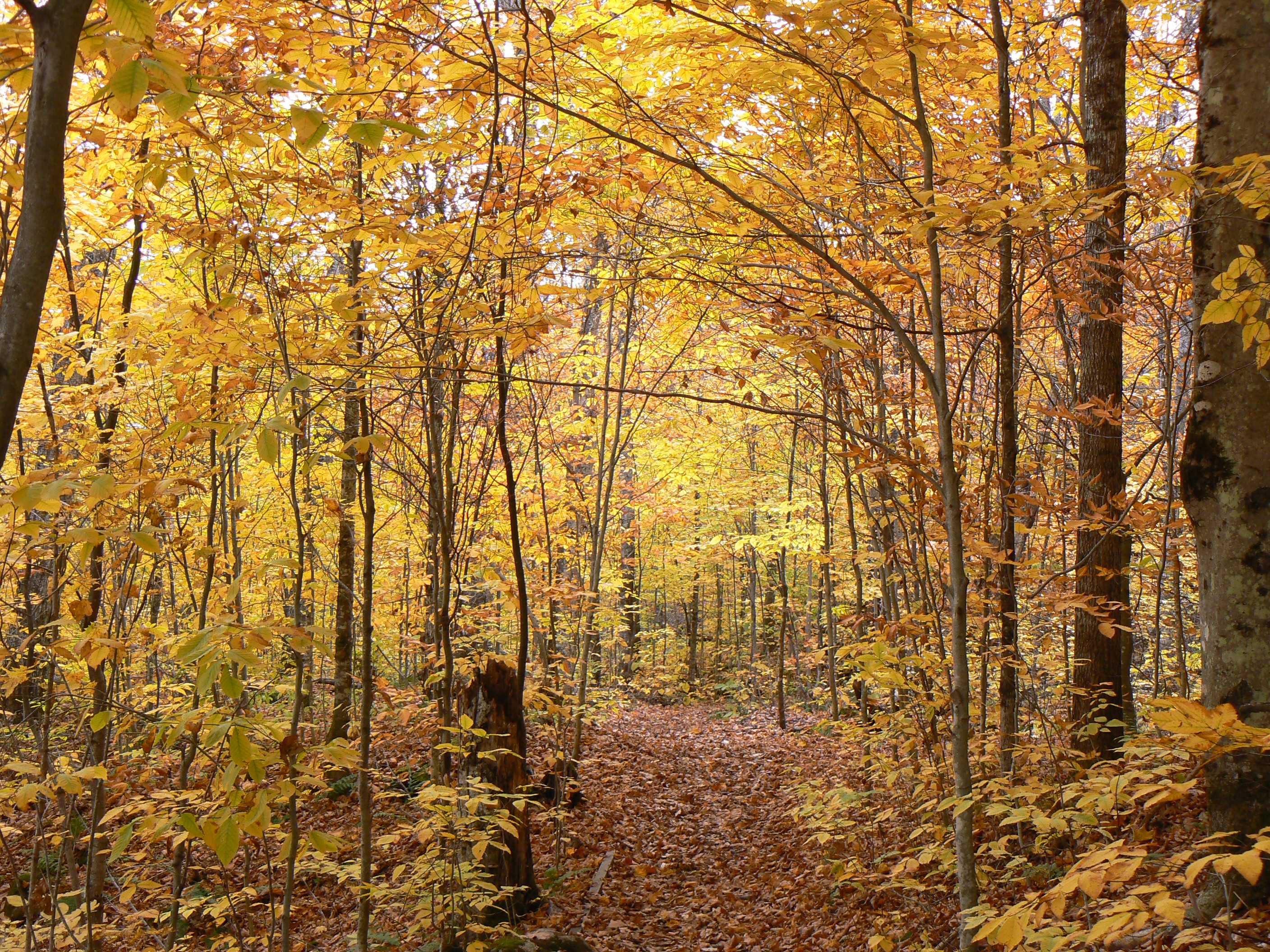 Along the trail to Lac Gabet in la Mauricie National Park, Québec, Canada